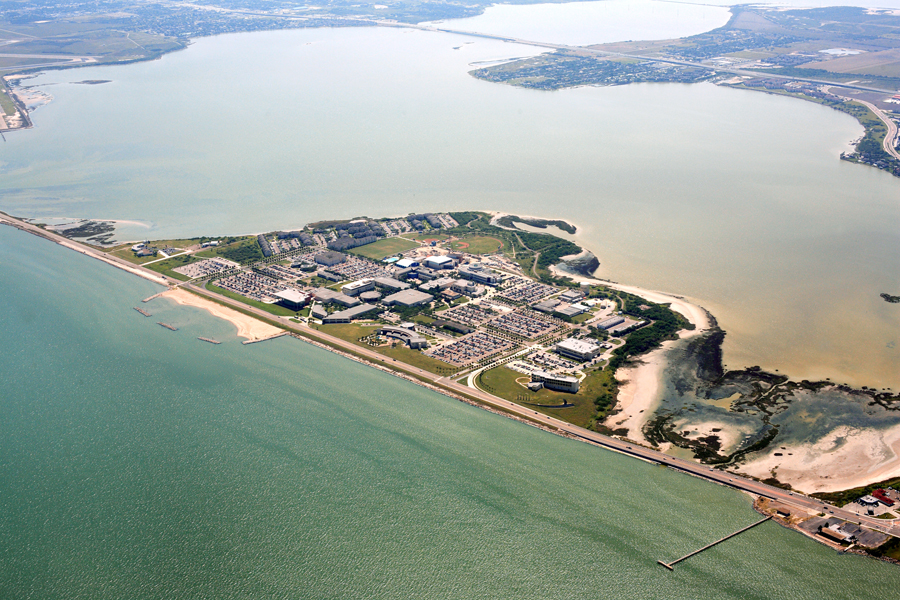 Aerial view of Texas A&M University-Corpus Christi.